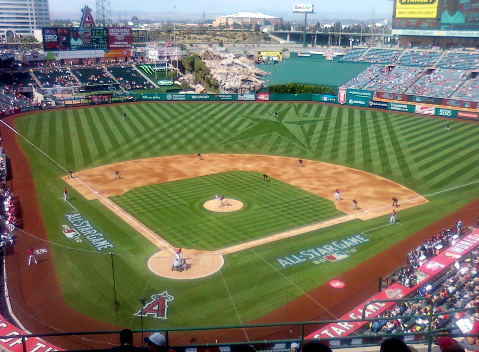 The 2010 XM All-Star Futures Game during the 2010 Major League Baseball All-Star Game festivities at Angel Stadium of Anaheim. World Team pitcher Hector Noesi delivers a pitch against U.S. Team batter Desmond Jennings. This photograph was taken with a Samsung Reclaim SPH-m560 mobile phone camera and edited (brightness, contrast, color balance, saturation) using ArcSoft PhotoStudio 5.5